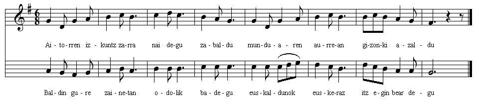 Music for Aitorren Izkuntz Zarra. Music and lyrics public domain. Engraving by me.